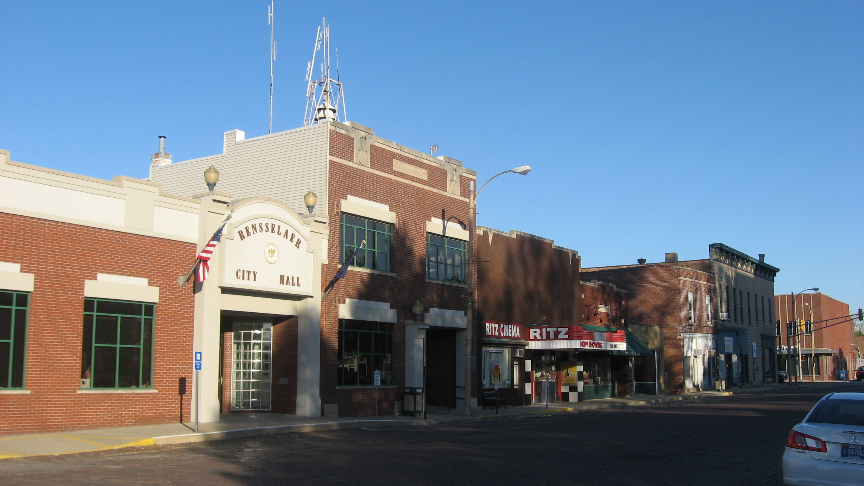 Buildings on the western side of the 100 block of S. Van Rensselaer Street on Courthouse Square in Rensselaer, Indiana, United States. This block is part of the Rensselaer Courthouse Square Historic District, a historic district that is listed on the National Register of Historic Places. From left to right, the buildings are as follows: 126 S. Van Rensselaer: No style, built 1890 and greatly rebuilt 1998; City Hall. 122 S. Van Rensselaer: Neoclassical, built 1915; Old City Hall and Fire Station. 118 S. Van Rensselaer: Art Moderne, built 1928; Ritz Theatre. 114 S. Van Rensselaer: American Craftsman, built 1928; Worden Building. 112 S. Van Rensselaer: No style, built 1930. 108-106 S. Van Rensselaer: No style, built 1890. 201 W. Washington (U.S. Route 231): Italianate, built 1868; A. McCoy Bank.